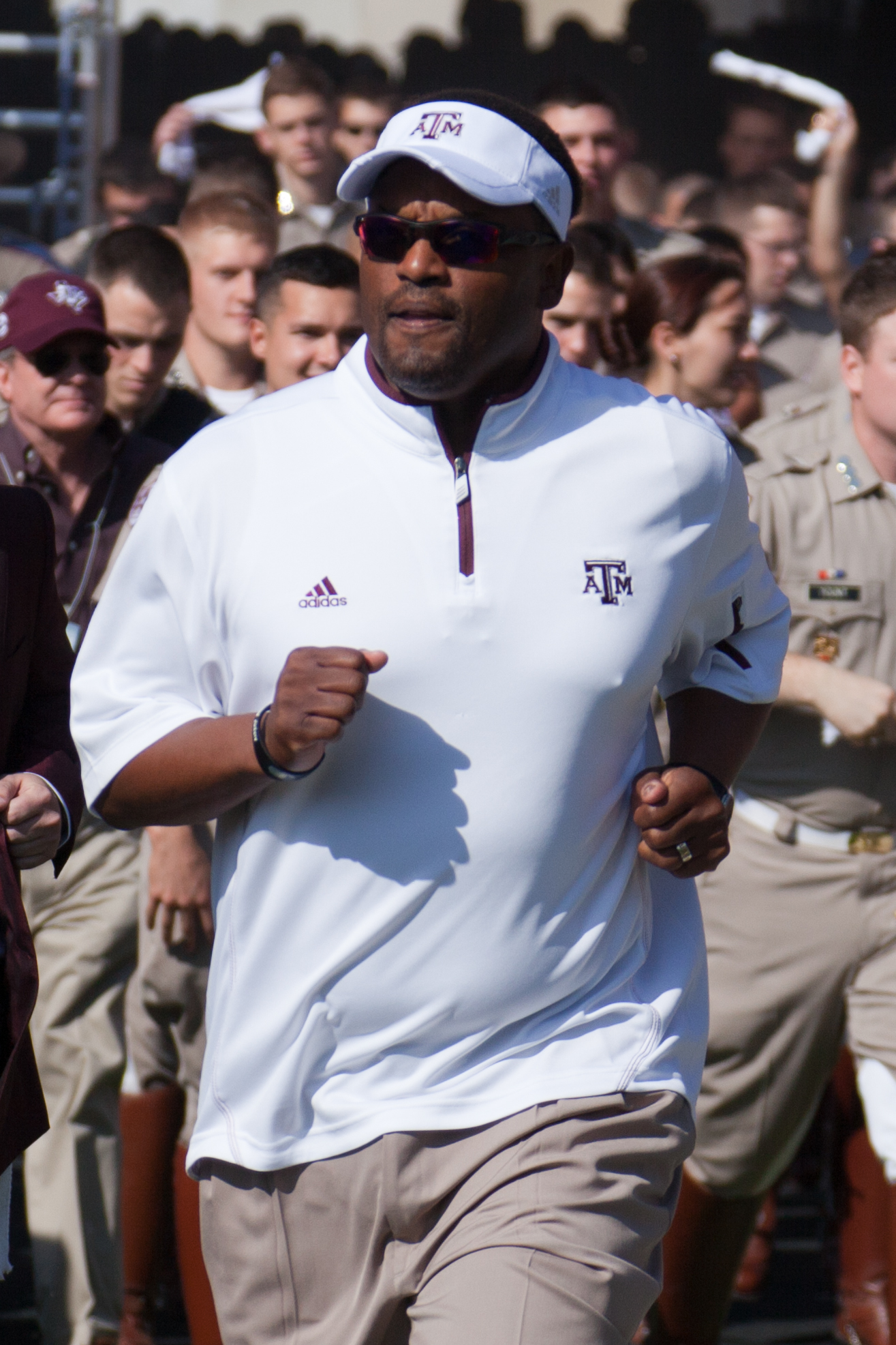 Texas A&M football coach Kenin Sumlin in Kyle Field on October 20, 2012 against the LSU Tigers in College Station Texas.